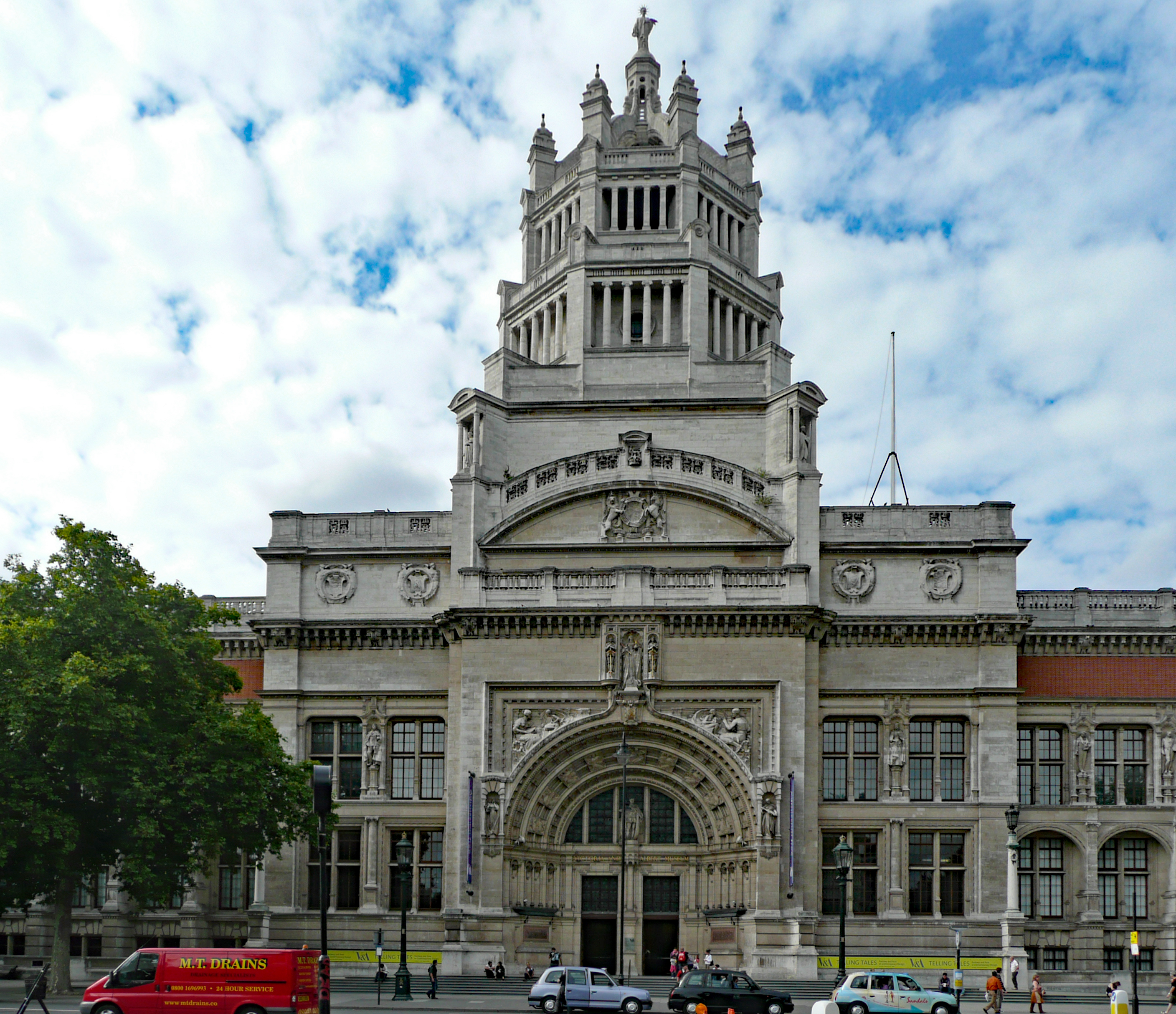 London - Victoria and Albert Museum